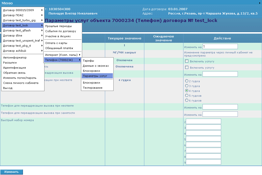 Service parameters control. Fastcom billing system